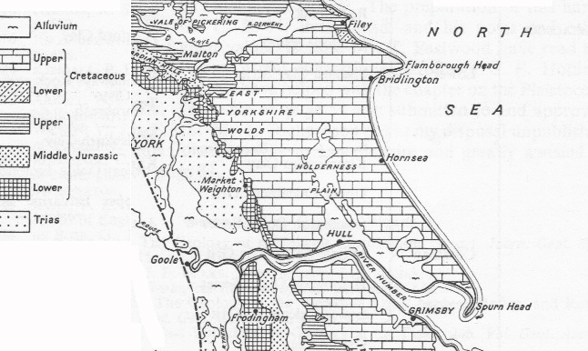 Solid geology of East Yorkshire, England